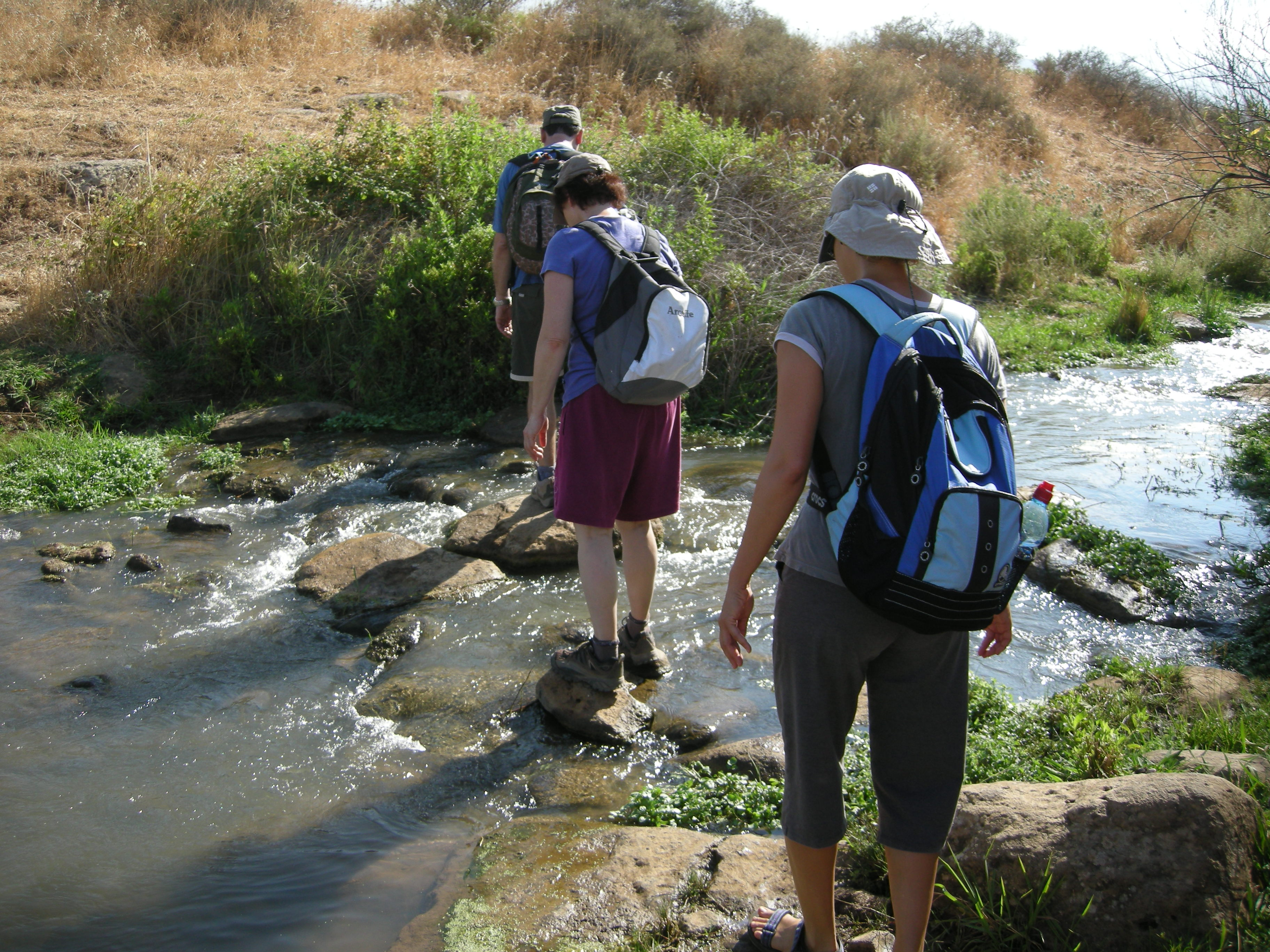 Israel National Trail part 1